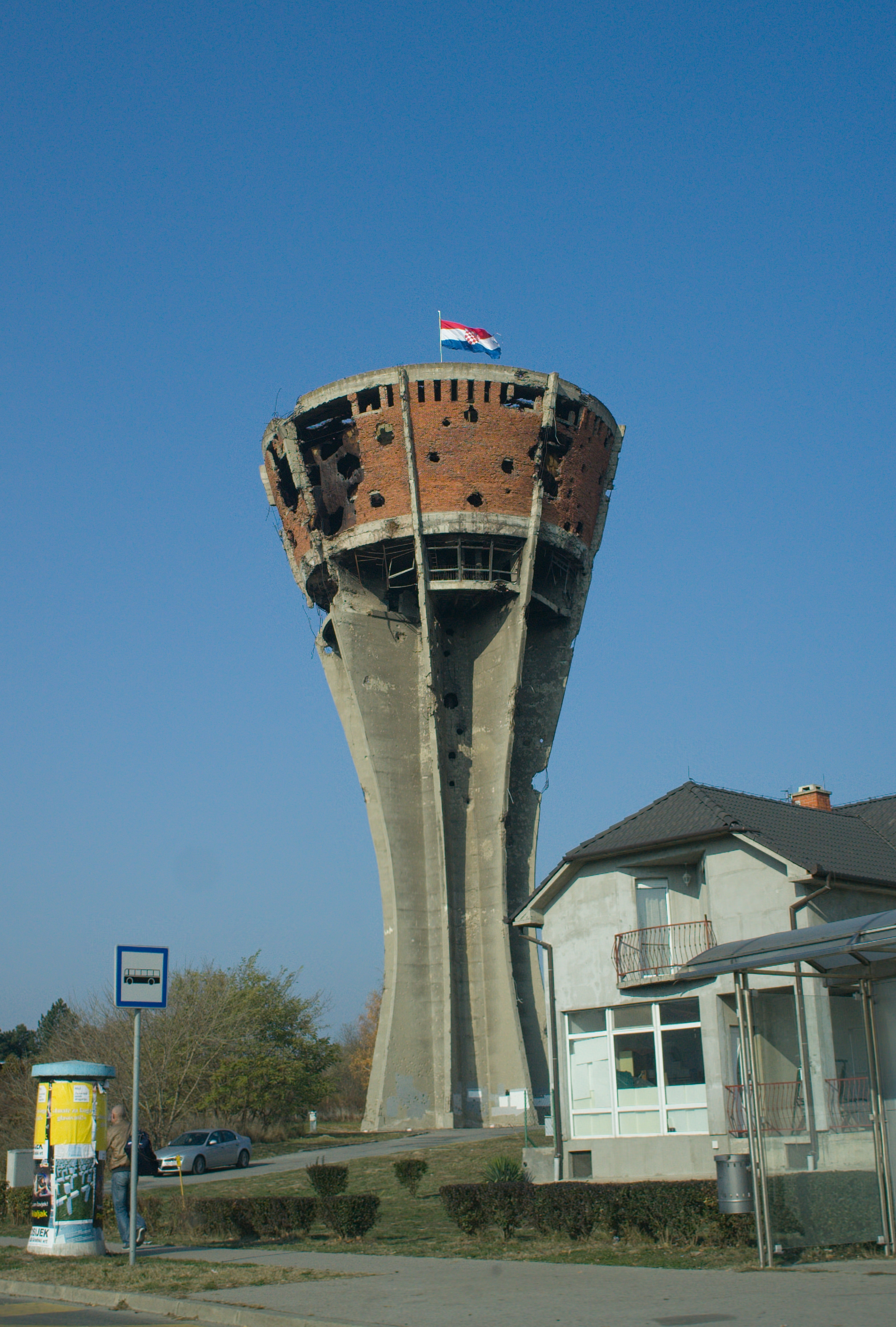 Water tower in Vukovar.